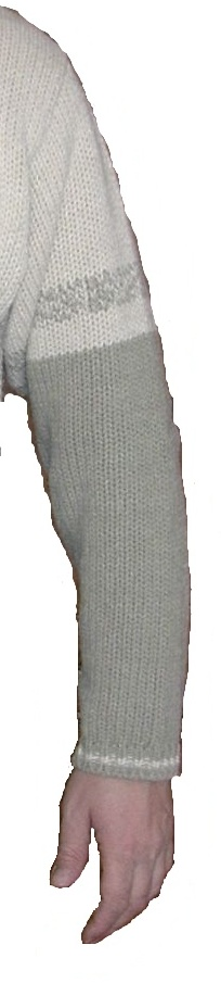 sleeve of sweater